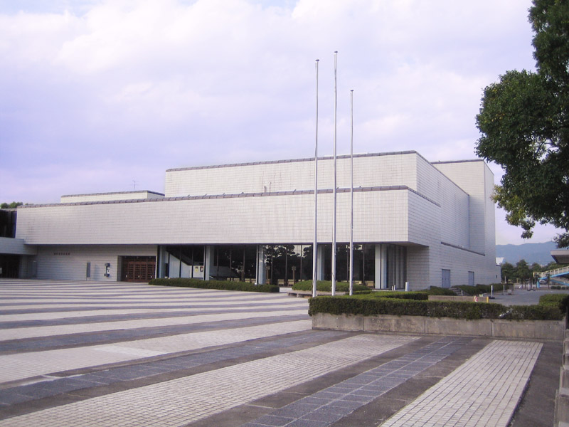 Toyokawa City Cultural Hall (豊川市文化会館), Aichi, Japan